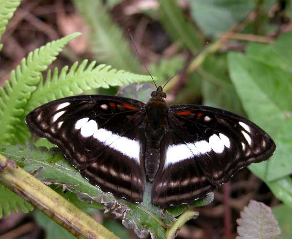 Staff Sergeant (Athyma selenophora) at Jairampur, Arunachal radesh India.